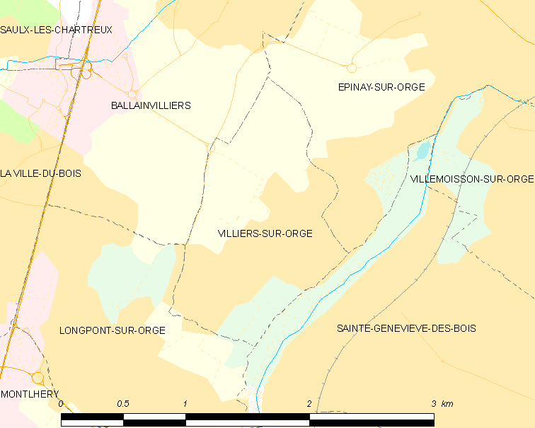 Map of French municipality Villiers-sur-Orge